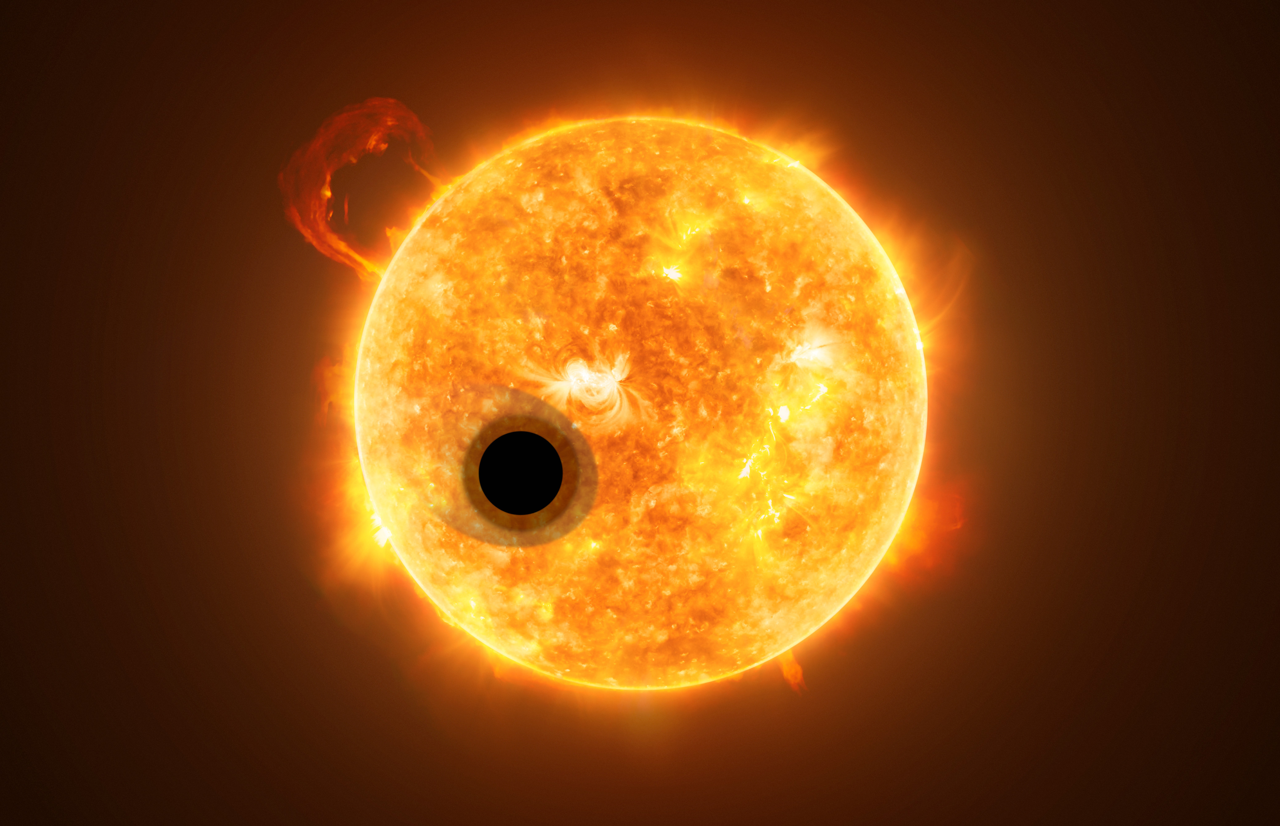 The exoplanet WASP-107b is a gas giant, orbiting a highly active K-type main sequence star. The star is about 200 light-years from Earth. Using spectroscopy, scientists were able to find helium in the escaping atmosphere of the planet — the first detection of this element in the atmosphere of an exoplanet.